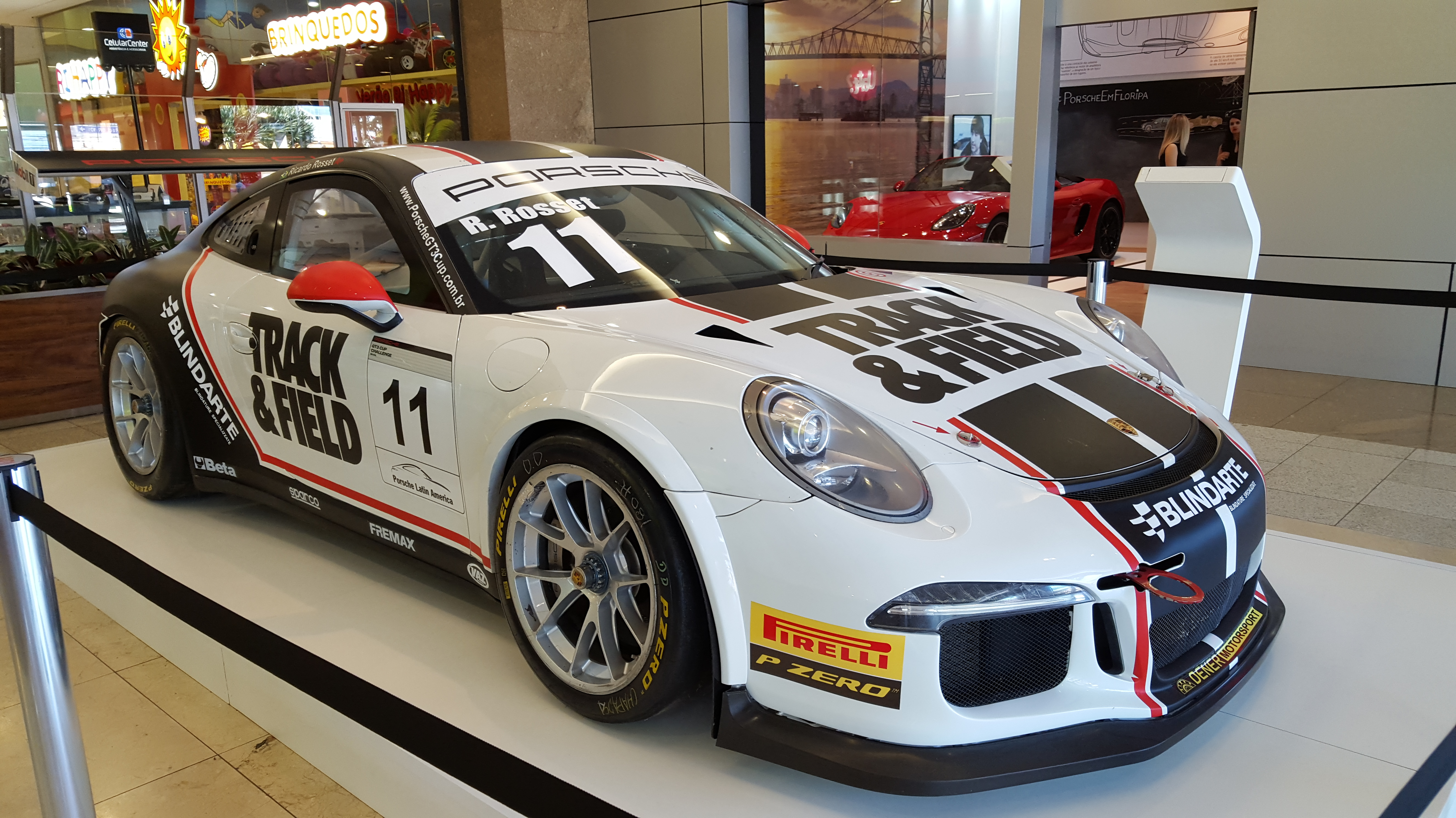 Porsche 911 GT3, from GT3 Cup Challenge, Ricardo Rosset car, number 11. On display at Iguatemi Shopping, Florianópolis.